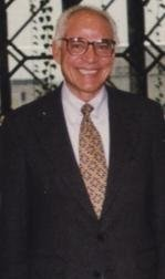 Farooq El-Baaz at KFAS.